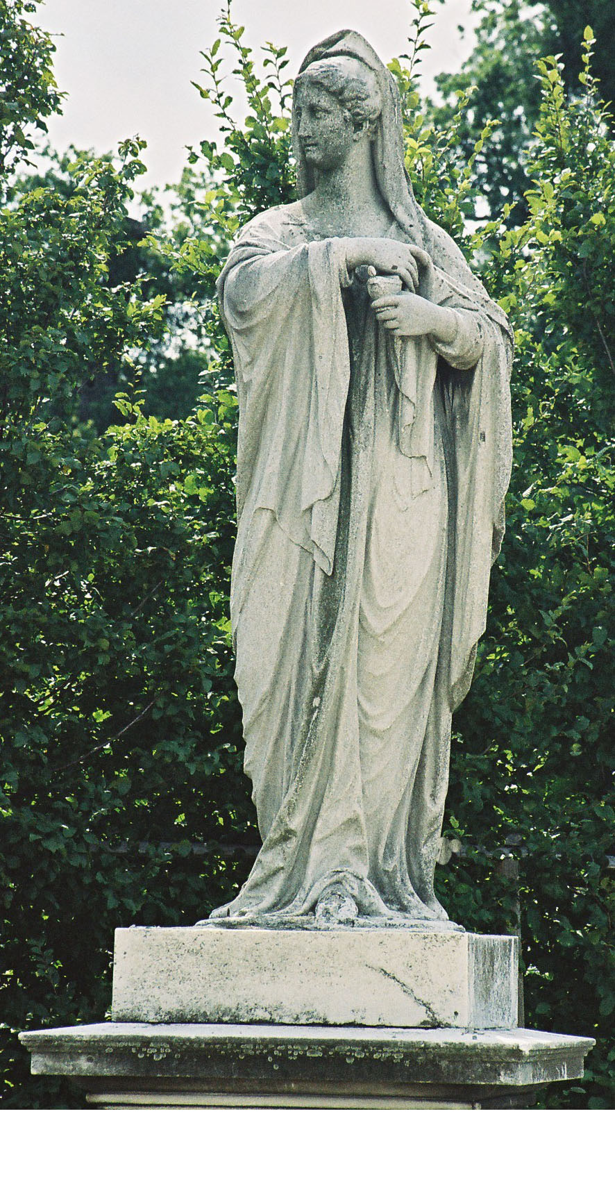 Vienna, Schönbrunn gardens, statue Vestal